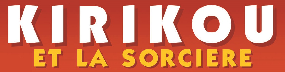 French logo of the French animated film Kirikou and the Sorceress